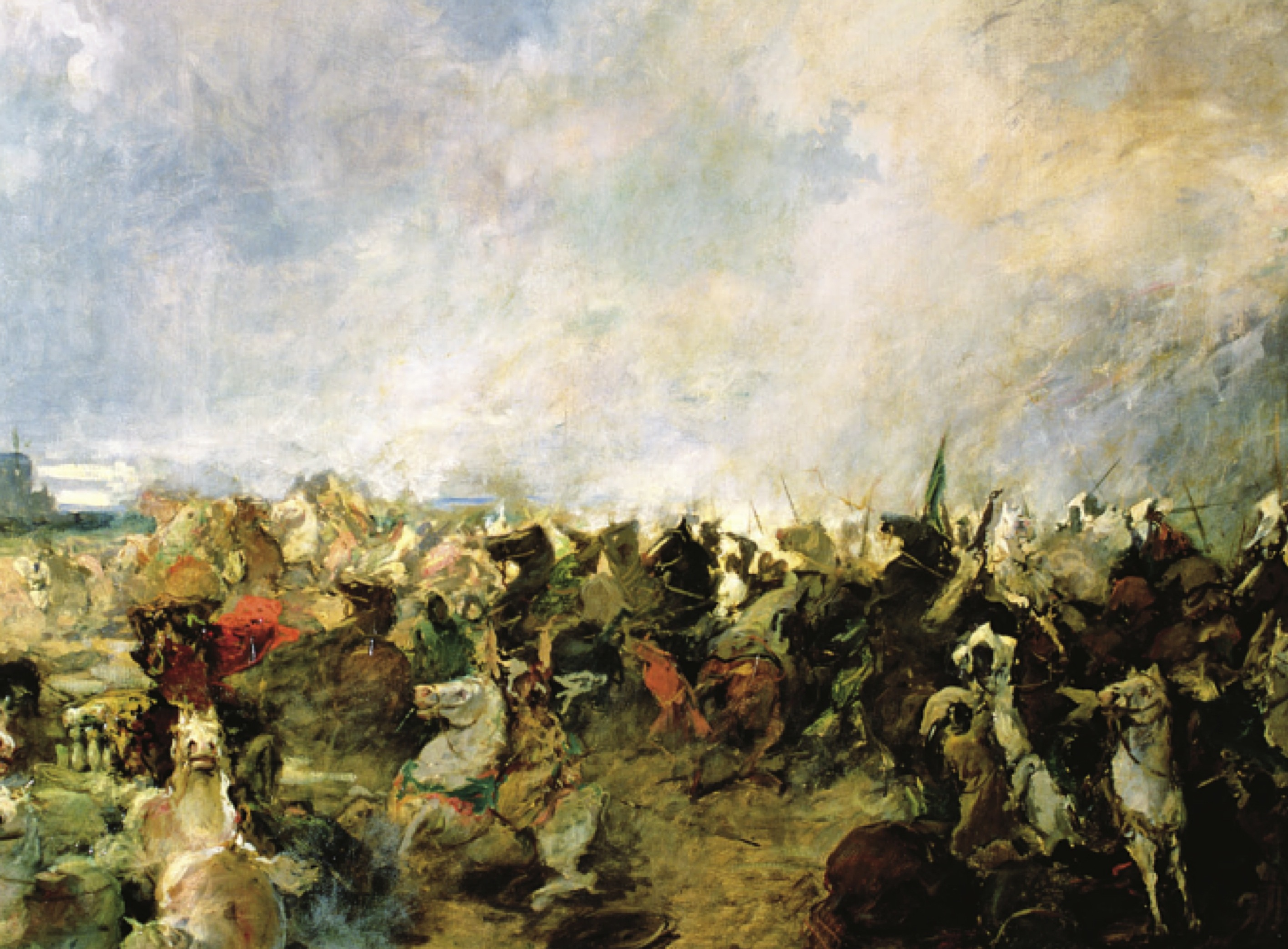 The battle of Guadalete - as imagined some 1200 years later by the spanish painter Martinez Cubells (1845-1914). The details depicts the commencement of the Goths' retreat in the face of Tarik's Berber cavalry.